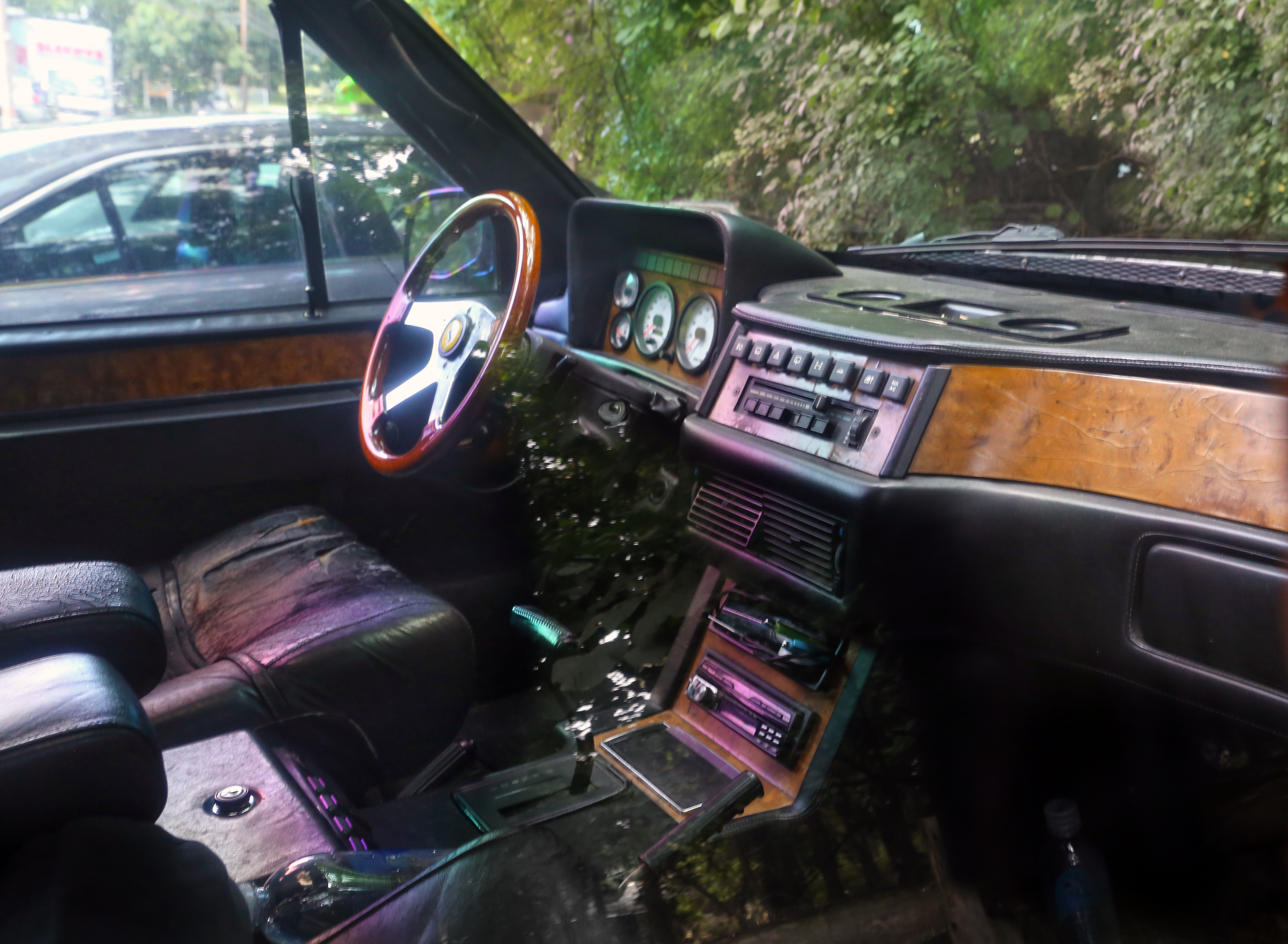 This particular car (or truck) is one of the leftover original 1989s marketed again by the new Laforza company in 1999/2000. This particular example, here spotted in Springs, Long Islan, NY, has been retrofitted with a new 2002-style front end. It also has a new, very powerful supercharged Ford crate engine (a 5.0 V8). Very spiffy, but parked in a dark space at a very awkward angle and nearly impossible to photograph. Bah.